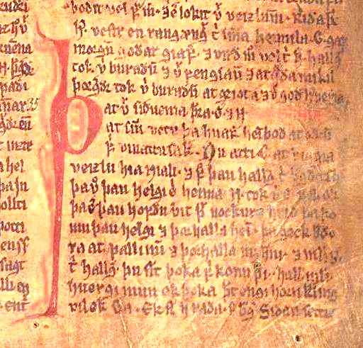 icelandic manuscript, about 1350